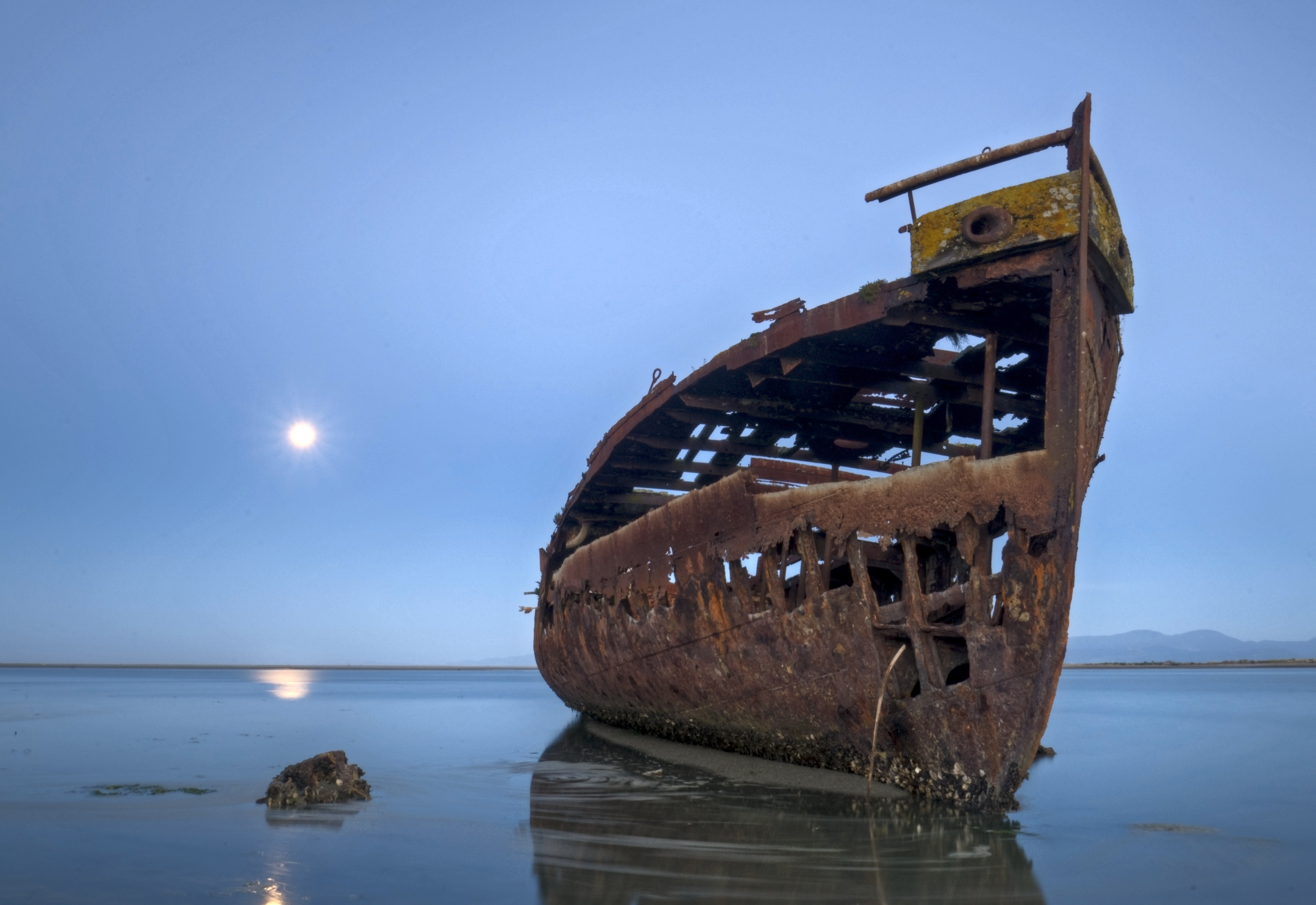 Wreck of the Janie Seddon